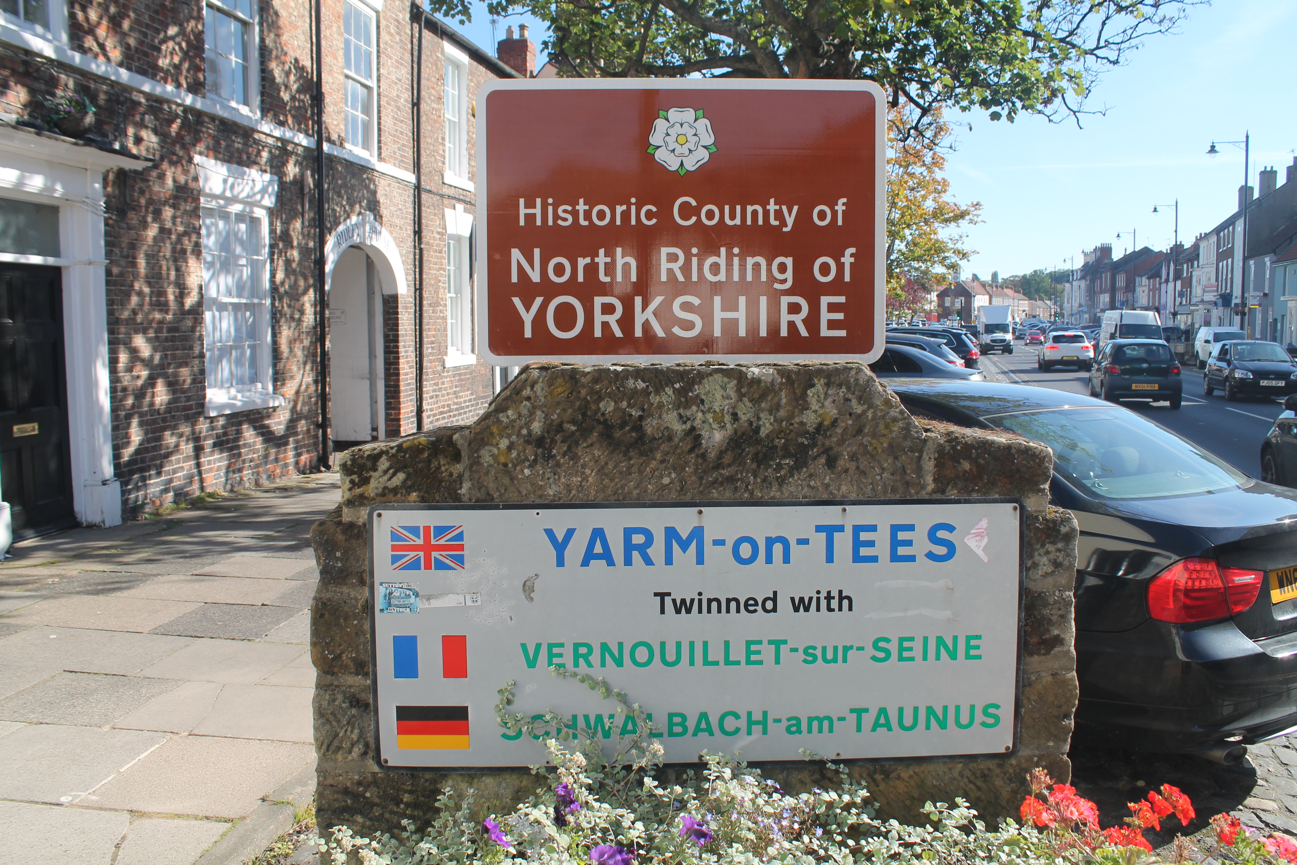 Signage seen on entering Yarm.